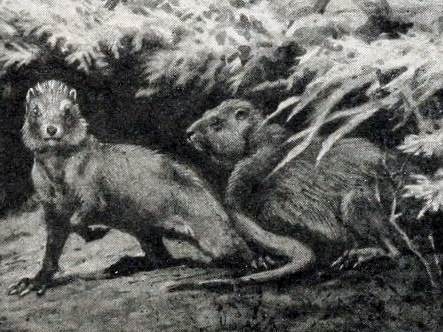 Life restoration of Interatherium robustum from W.B. Scott's A History of Land Mammals in the Western Hemisphere. New York: The Macmillan Company.